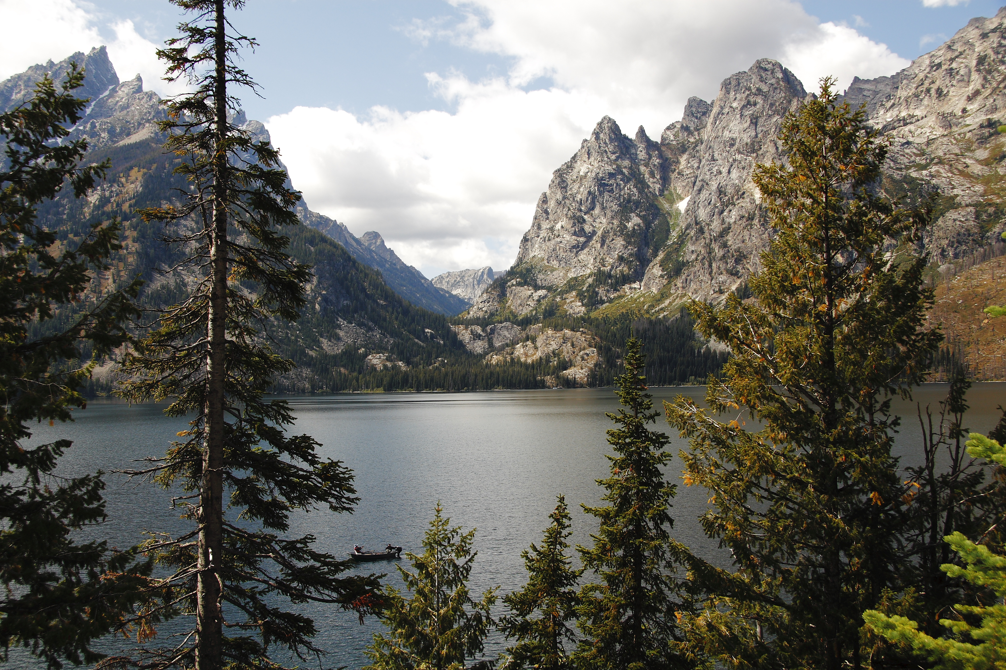 Mt Owen and Mt St John across Jenny Lake, Grand Teton NP, Wyoming - 4189